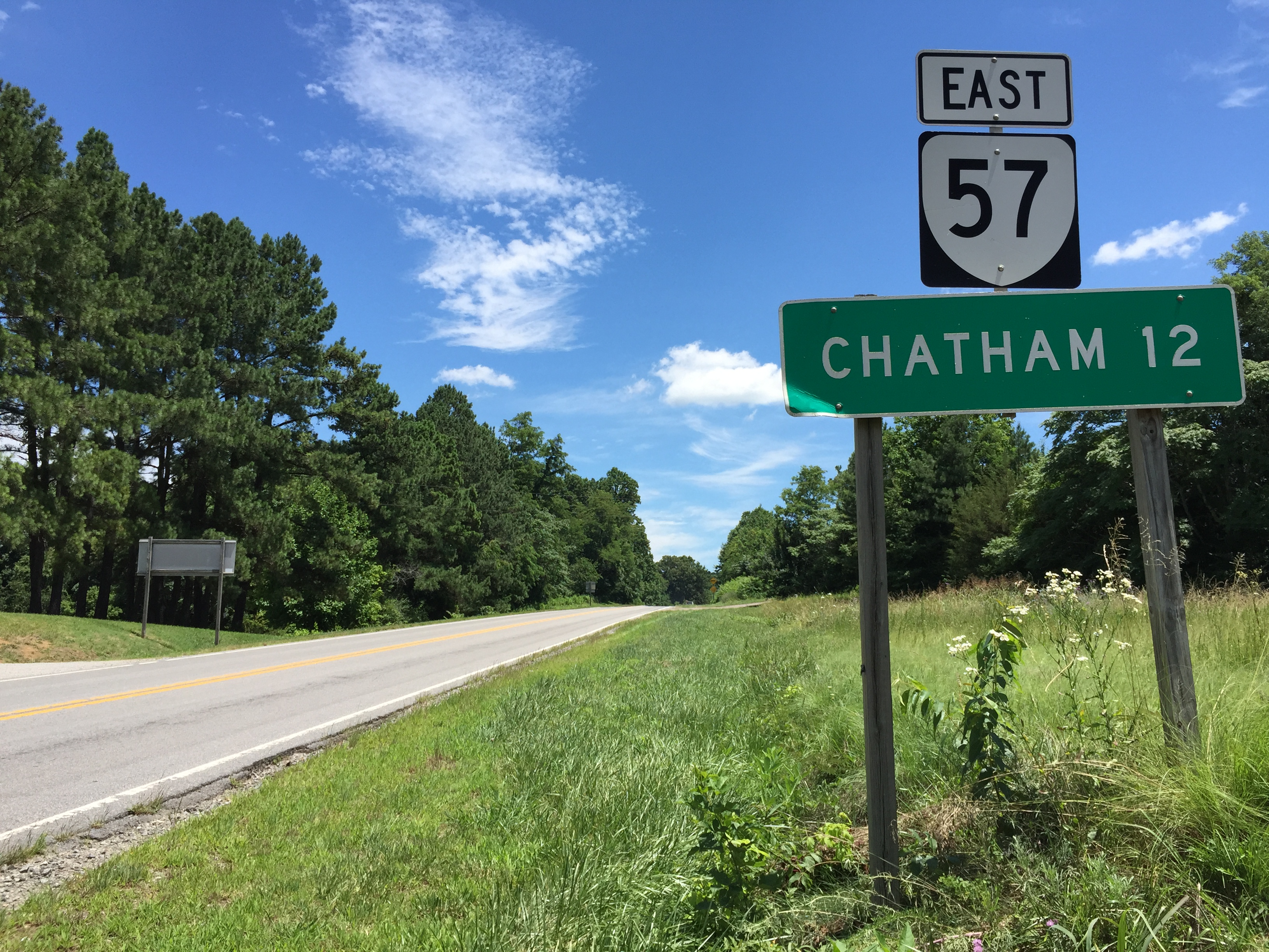 View east along Virginia State Route 57 (Callands Road) at Virginia State Route 41 (Franklin Turnpike) in Callands, Pittsylvania County, Virginia